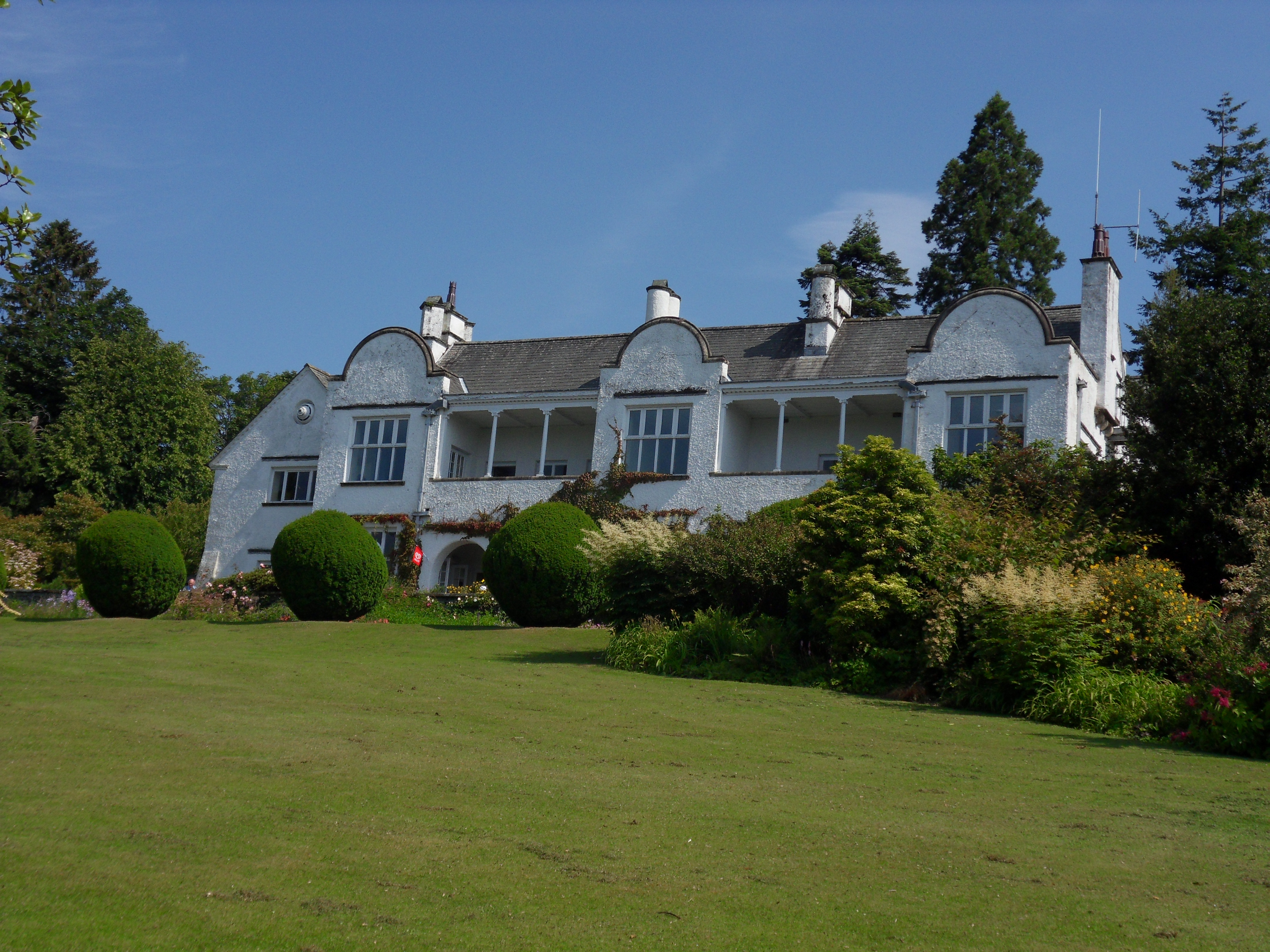 National Park Centre. Brockhole, open in 1969 as the Lake District National Park HQ. Today has been expanded to include a Lake District educational exhibit, shop, and cafe. Also under construction is a larger landing stage to allow larger leisure boats to visit the centre, this should be completed in the summer of 2011.